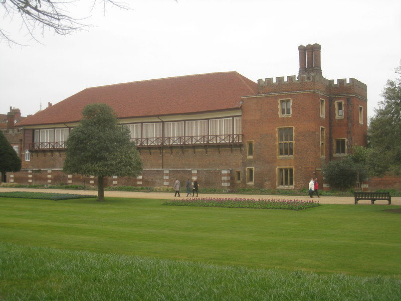 TQ1568 : Real Tennis Court, Hampton Court.